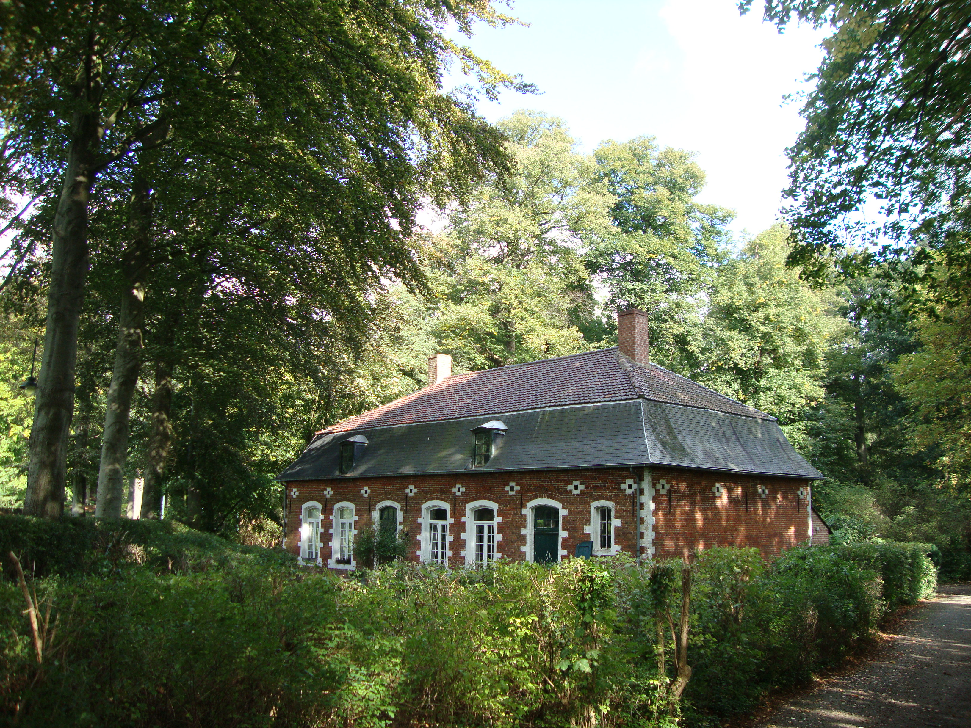 Ranger House, c. 1750, Everberg